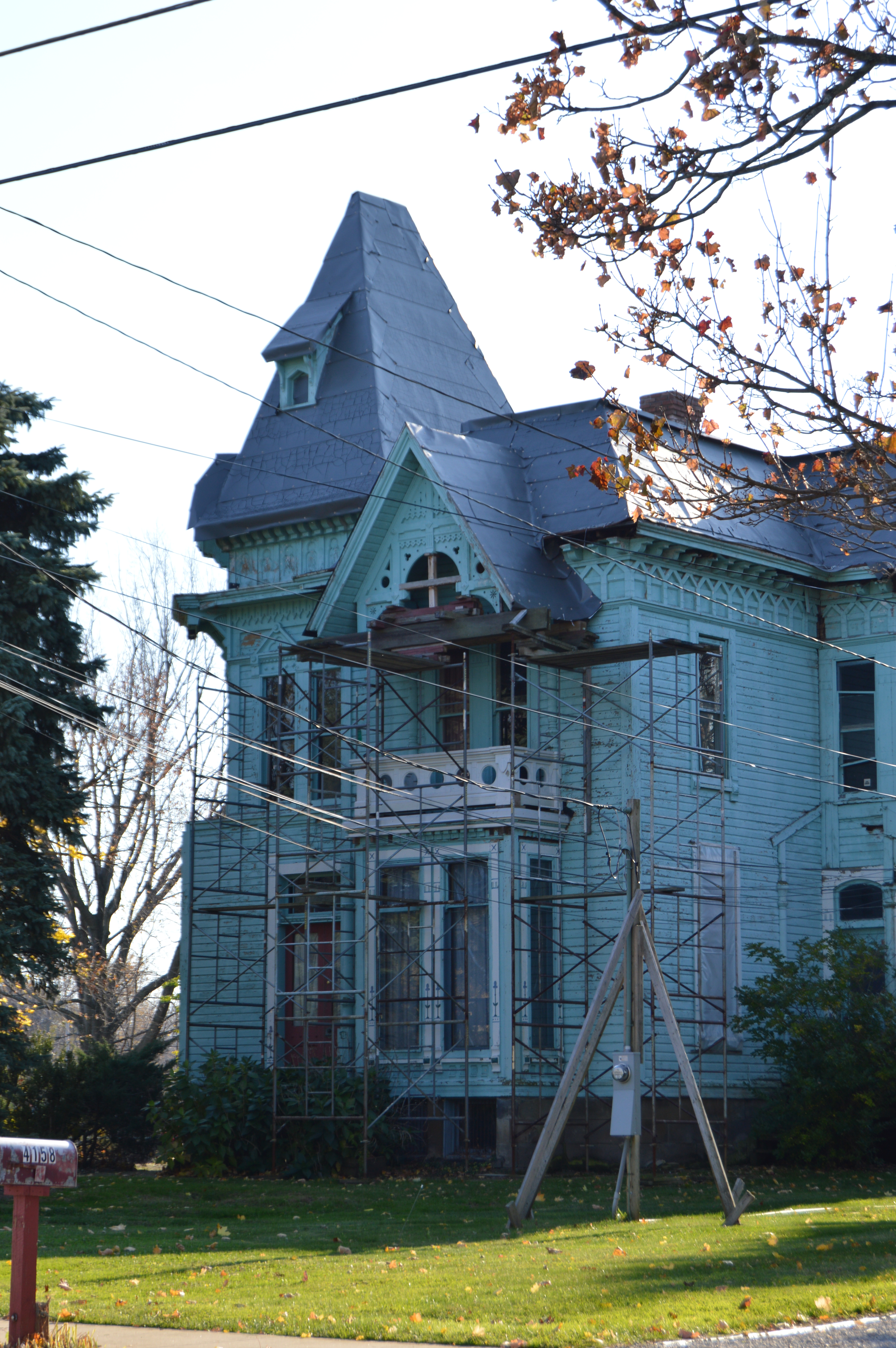 Front of the Lucius Green House, located at 4160 Main Street in Perry, Ohio, United States. Built in 1880, it is listed on the National Register of Historic Places.